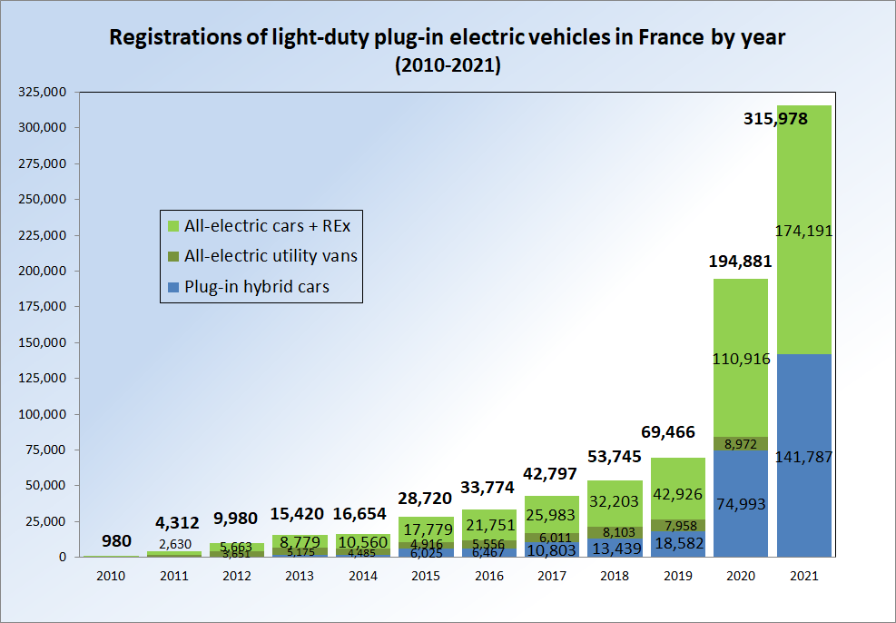 Historical series of annual light-duty plug-in vehicles registrations in France from 2010 to 2019 by type of vehicle. Registrations taken from: 2010-2013 Automobile-prope AVERE-France for light utility vehicles for 2014, 2013 and the other years. AVEM for 2015: all-electric cars, all-electric vans, and plug-in hybrids AVERE for 2016: all plug-in segments AVERE for 2017: all plug-in segments AVERE for 2018 and revised 2017: all plug-in segments (REx added to BEVs) AVERE for 2019 and revised 2017: all plug-in segments (REx added to BEVs) and other years for AVERE Graphic built by the author using Excel and converted to PNG with Photoshop Elements.